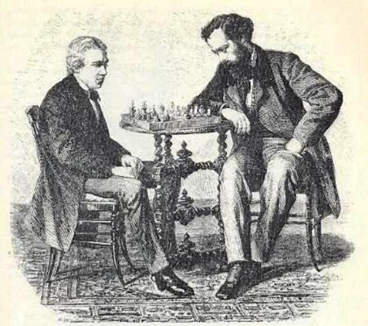 Image of Paul Morphy and Jules Arnous de Rivière playing at Paris, 1858.